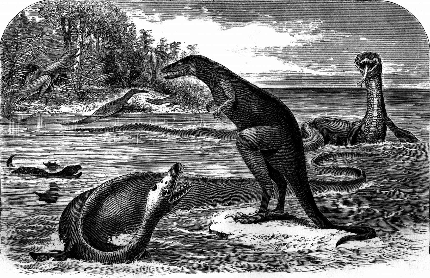 Dryptosaurus (formerly Lealaps) confronting Elasmosaurus orientalis, with Mosasaurus and Osteopygis behind. Hadrosaurus forages in background, and Thoracosaurus crawls up on the banks. Note that the head of Elasmosaurus was erroneously placed by Cope on the "short end" now known to be the tail. From: Cope, E.D. "The fossil reptiles of New Jersey," in: American Naturalist, vol. 3 (1869), pp. 84-91.